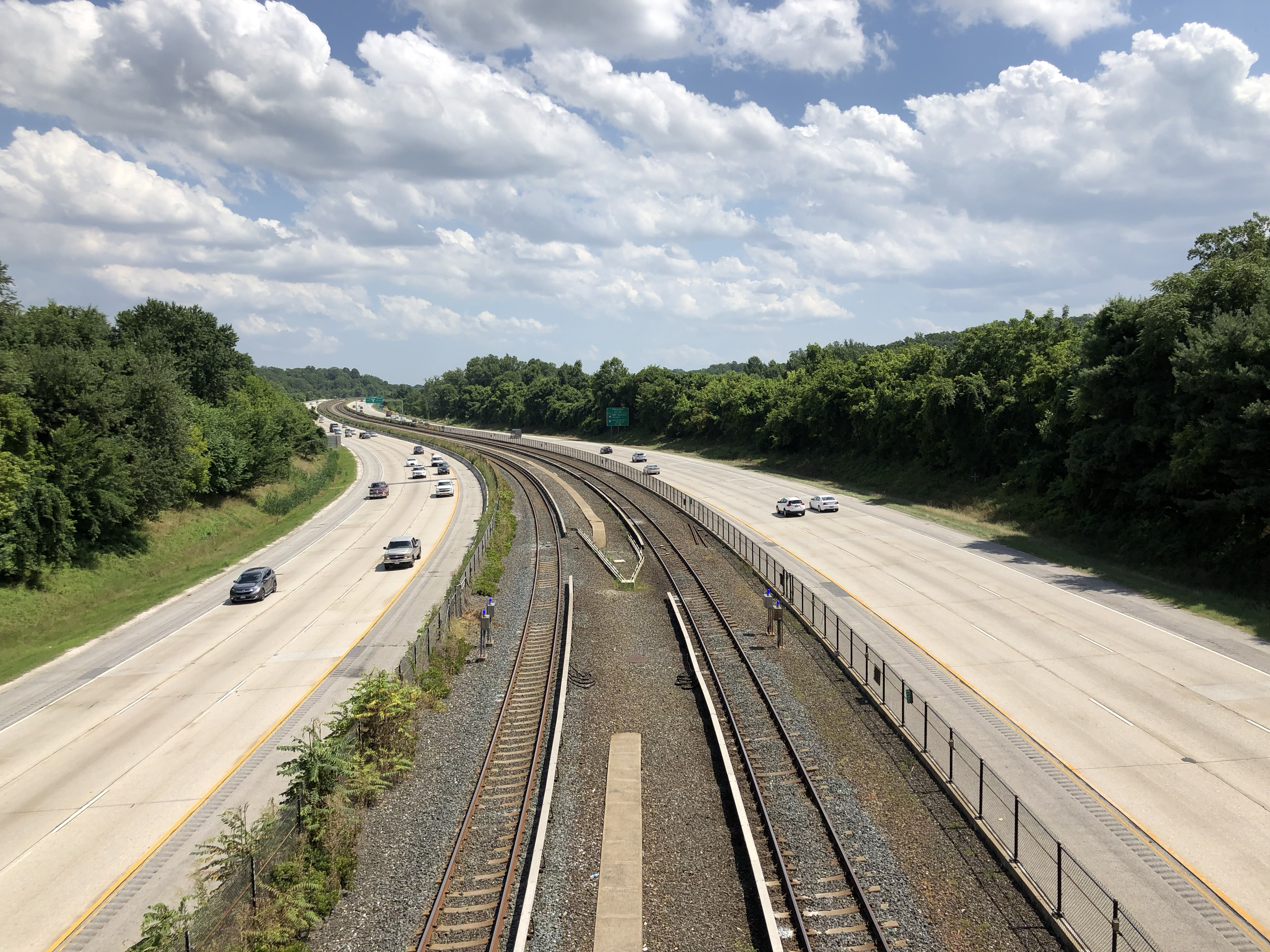 View south along Interstate 795 (Northwest Expressway) from the overpass for McDonogh Road on the edge of Garrison and Randallstown in Baltimore County, Maryland